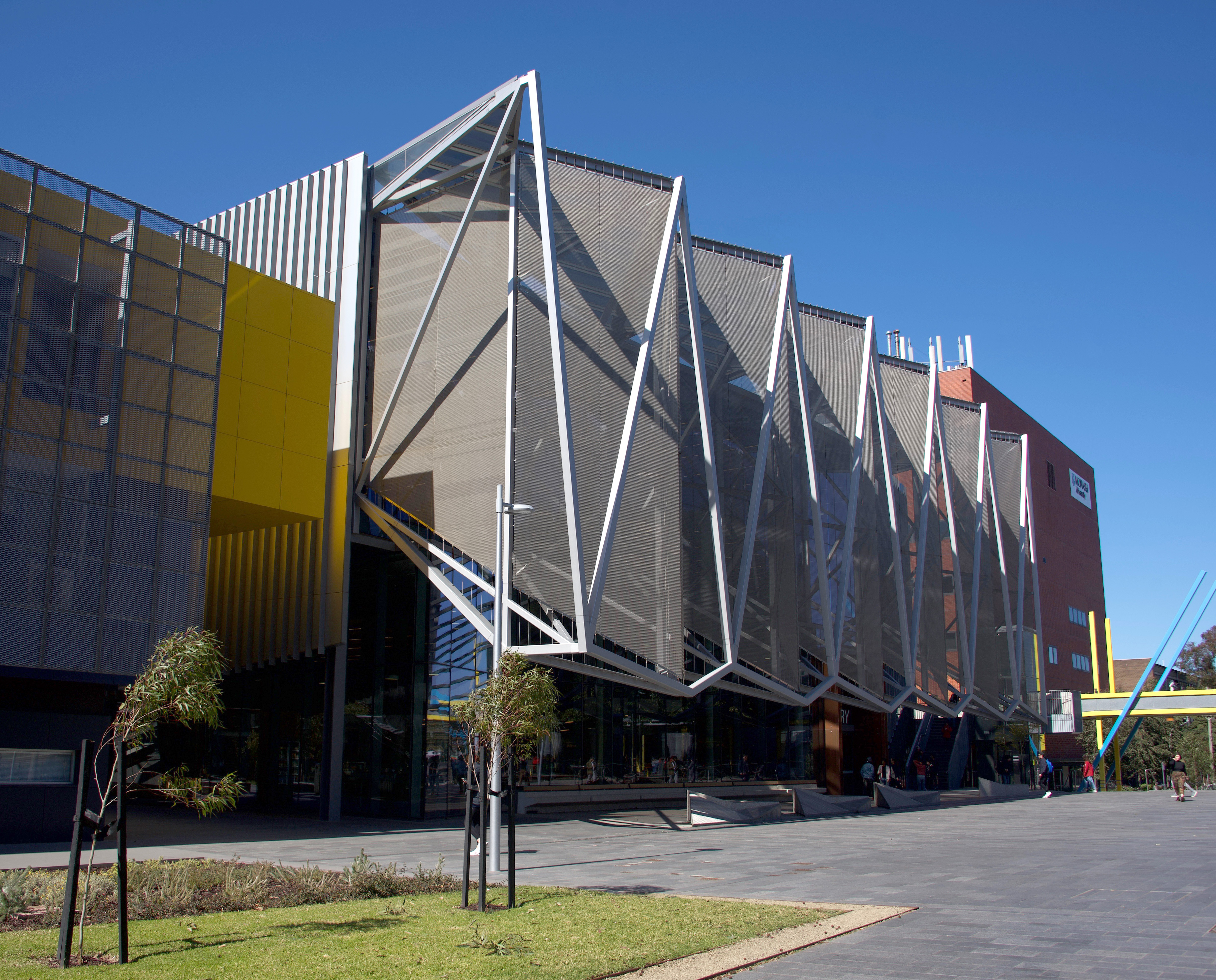 Architect: John Wardle